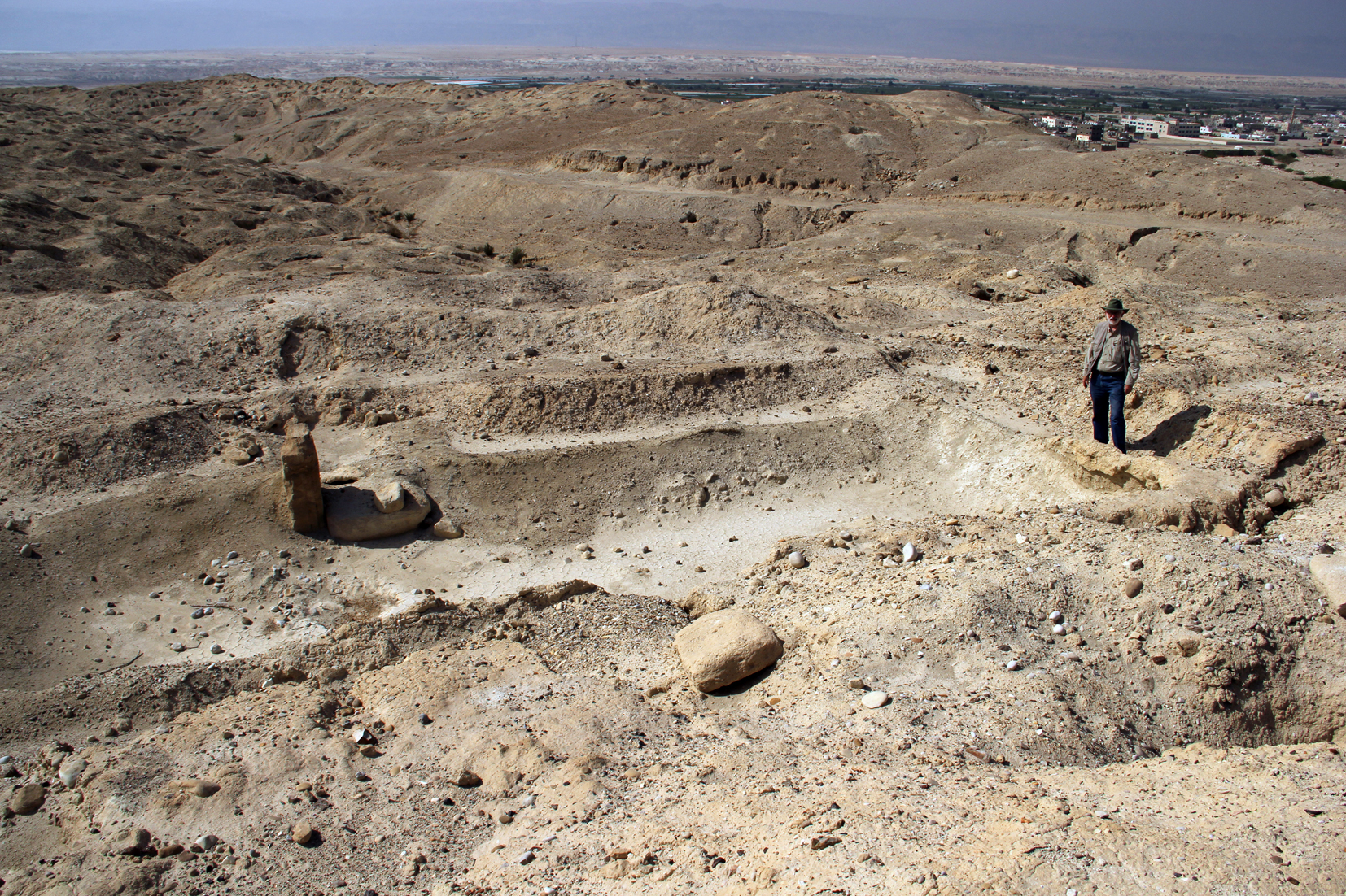 A Early Bronze Age III charnel house, Bab edh-Dhra cemetery. The doorway with a well dressed orthostat stone is visible on the side wall of the building.